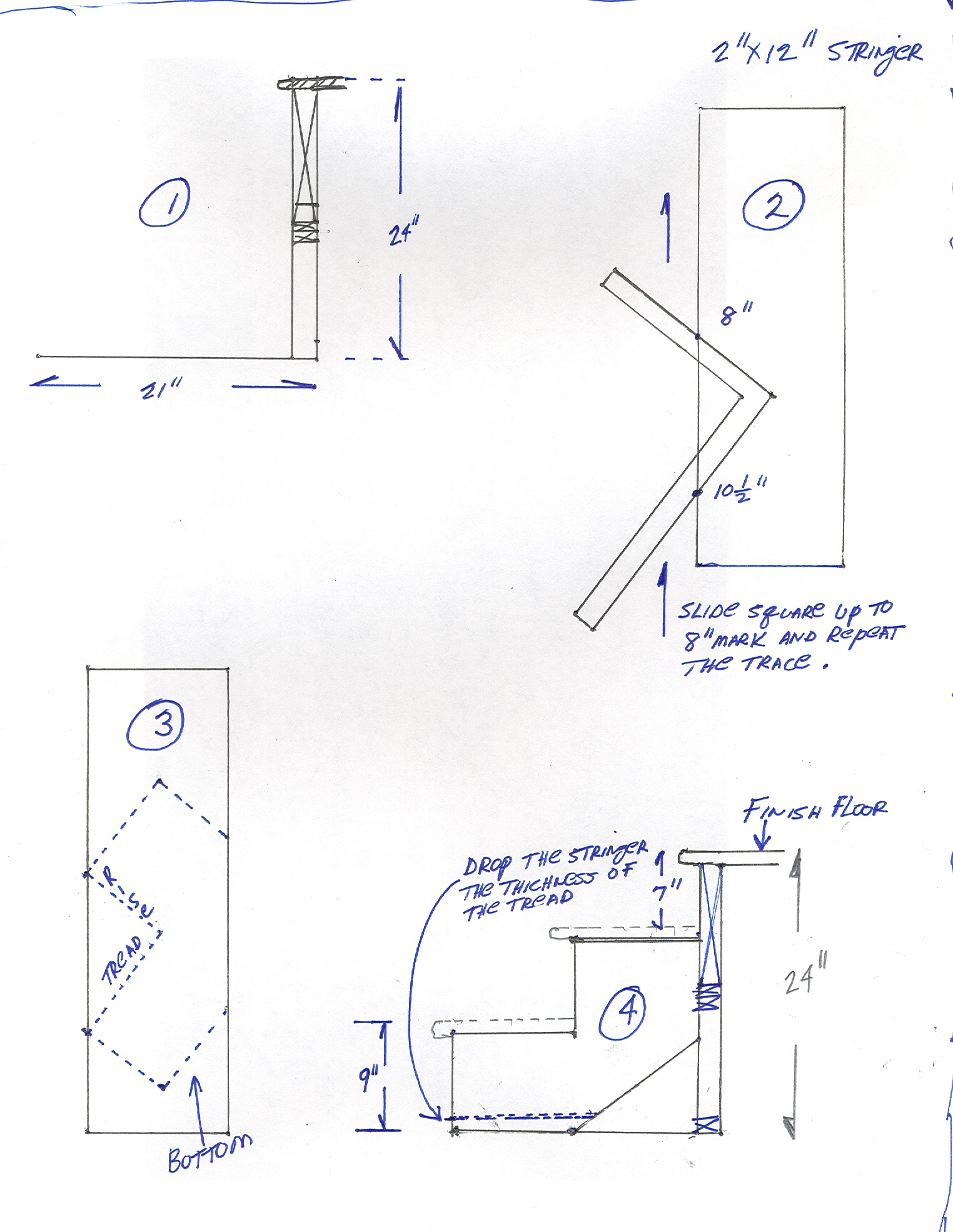 Building construction; - Laying out a stringer